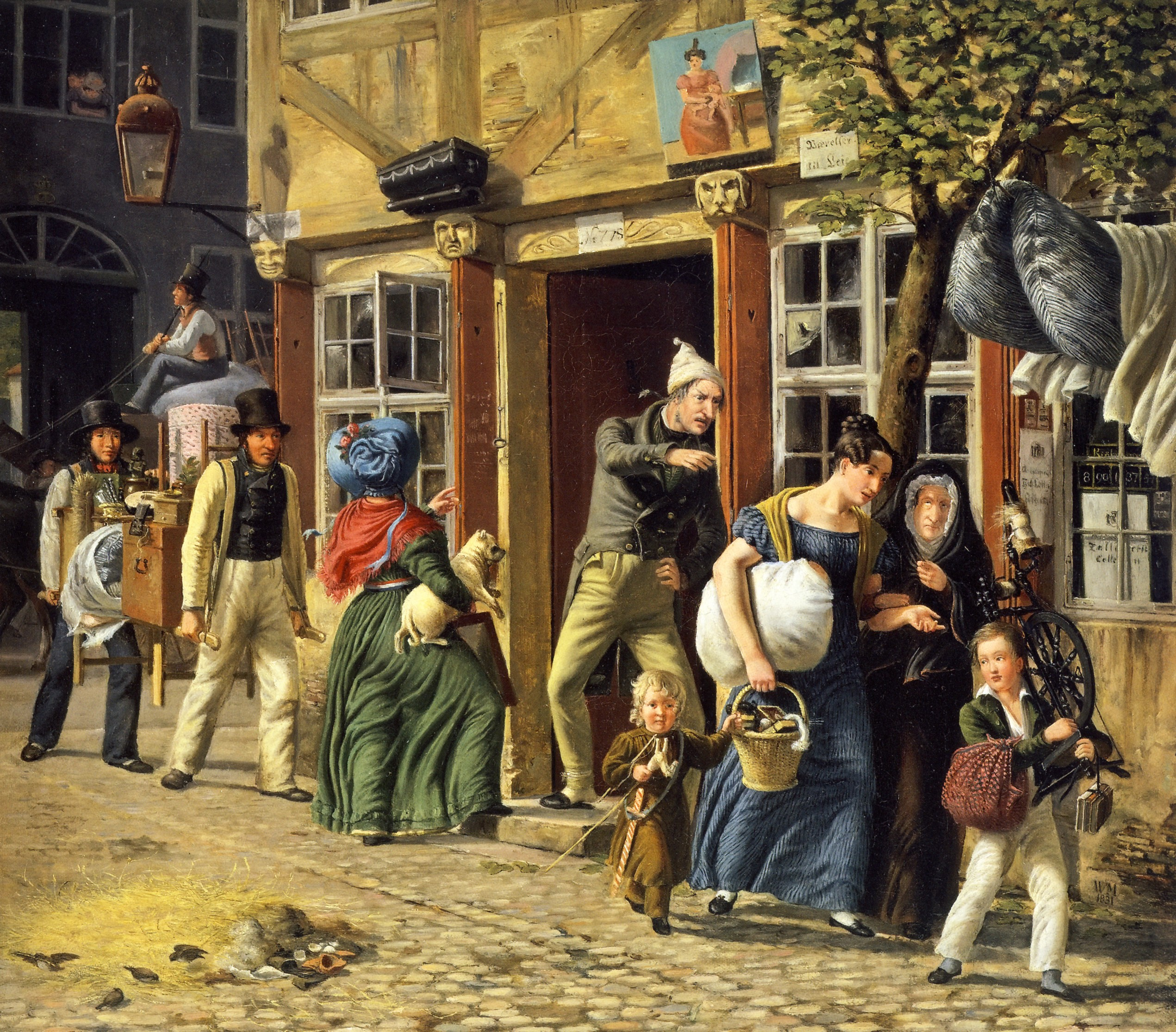 In this street scene from Copenhagen, Marstrand showed a little family thrown out by a landlord, and a new family being welcomed.